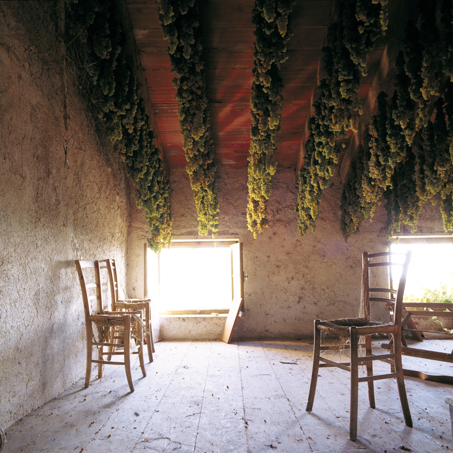 Vespaiola grapes drying from the ceiling to produce passito/straw wine.